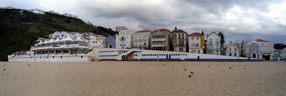 Overview over the Nazareth beach